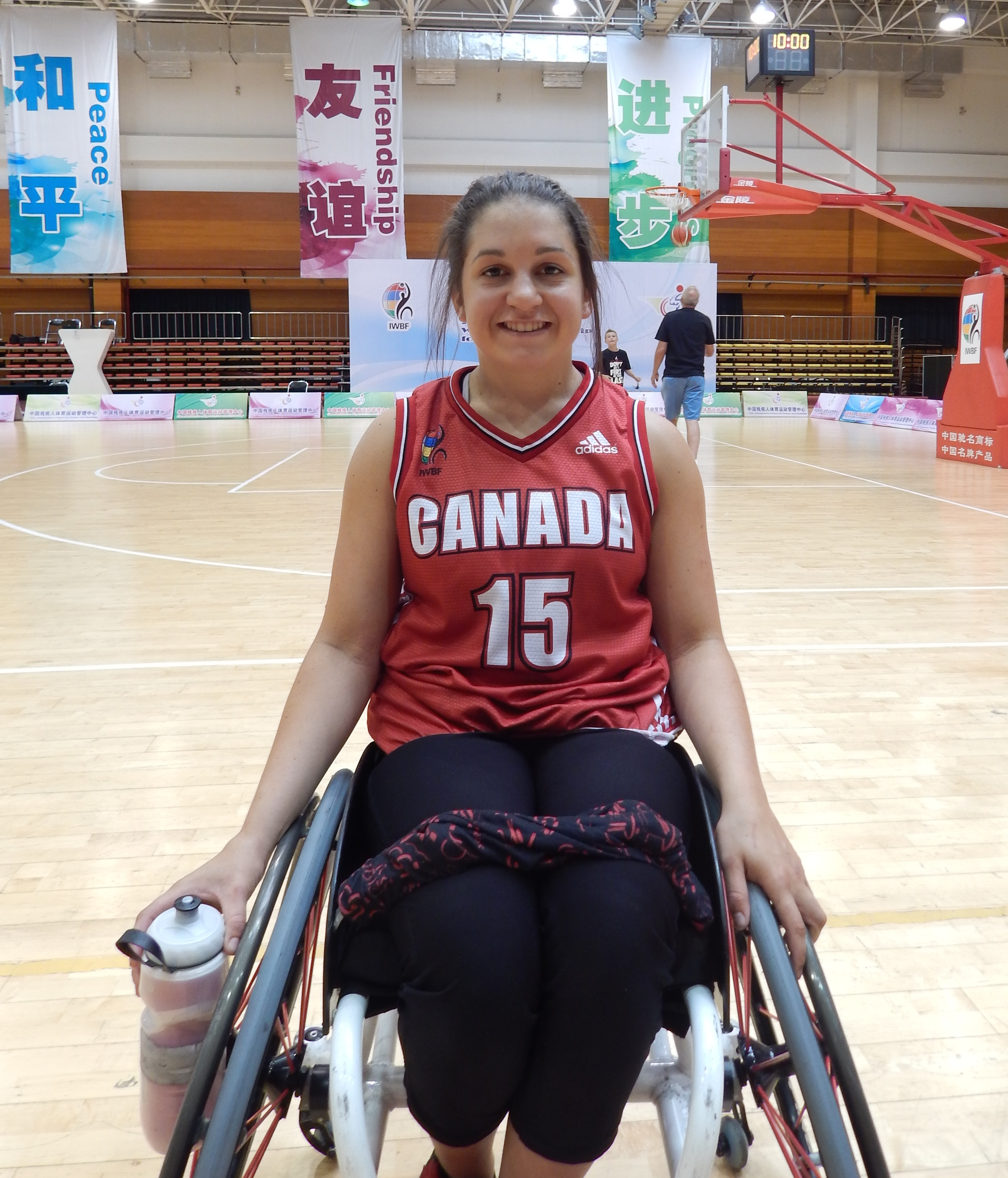 Wheelchair basketball - U25 Team Canada - Rosalie Lalonde